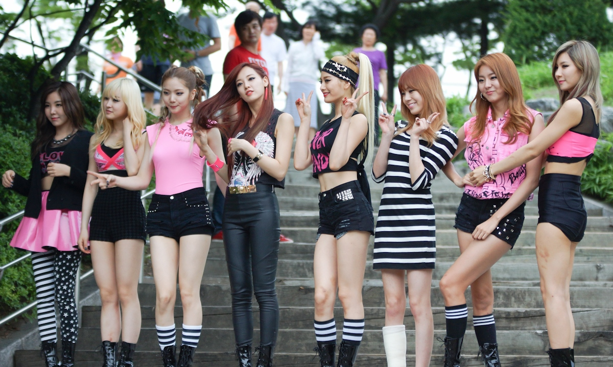 South Korean girl group After School at a mini fan meeting, 16 June 2013. From left to right: Raina, E-Young, Kaeun, Jooyeon, Nana, Lizzy, Uee, Jungah.